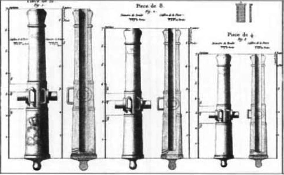 Gribeauval_system_elements